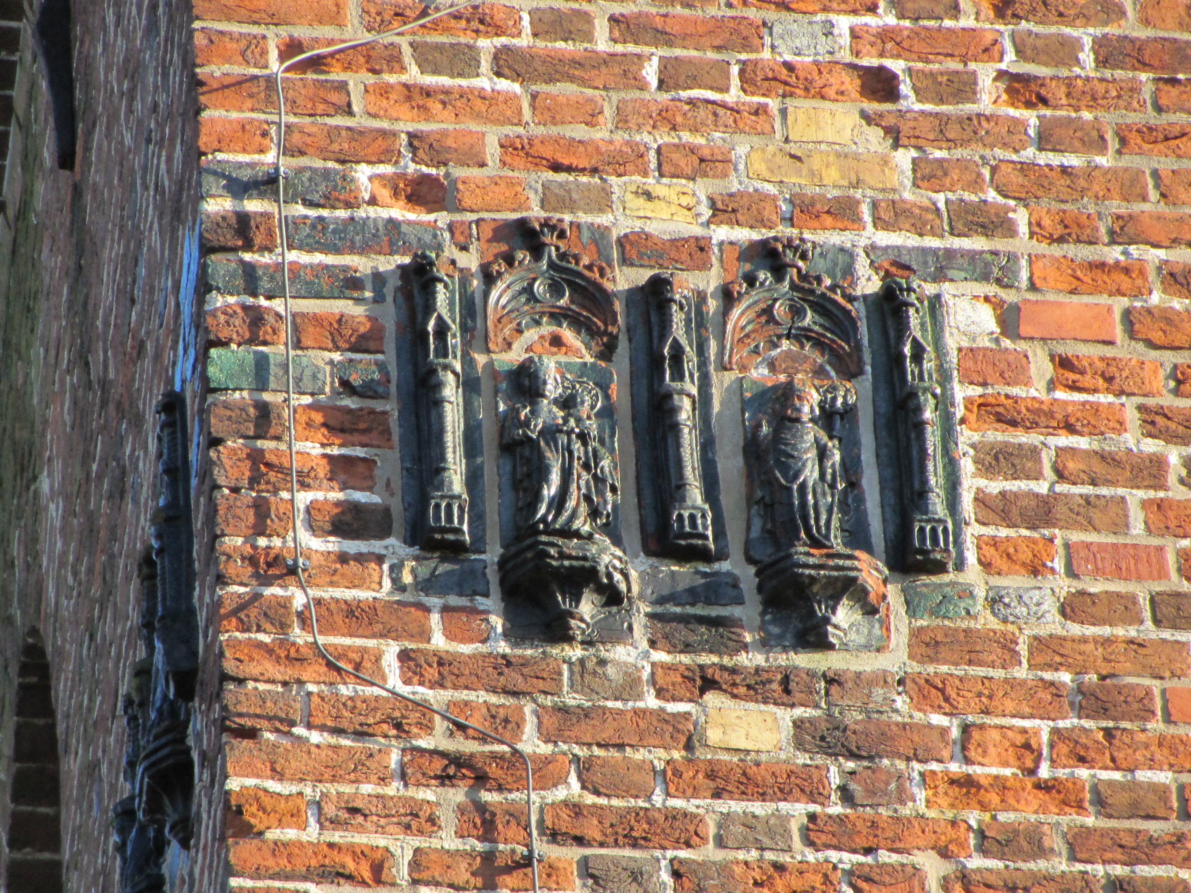 Reliefs at church tower in Neubukow, district Rostock, Mecklenburg-Vorpommern, Germany